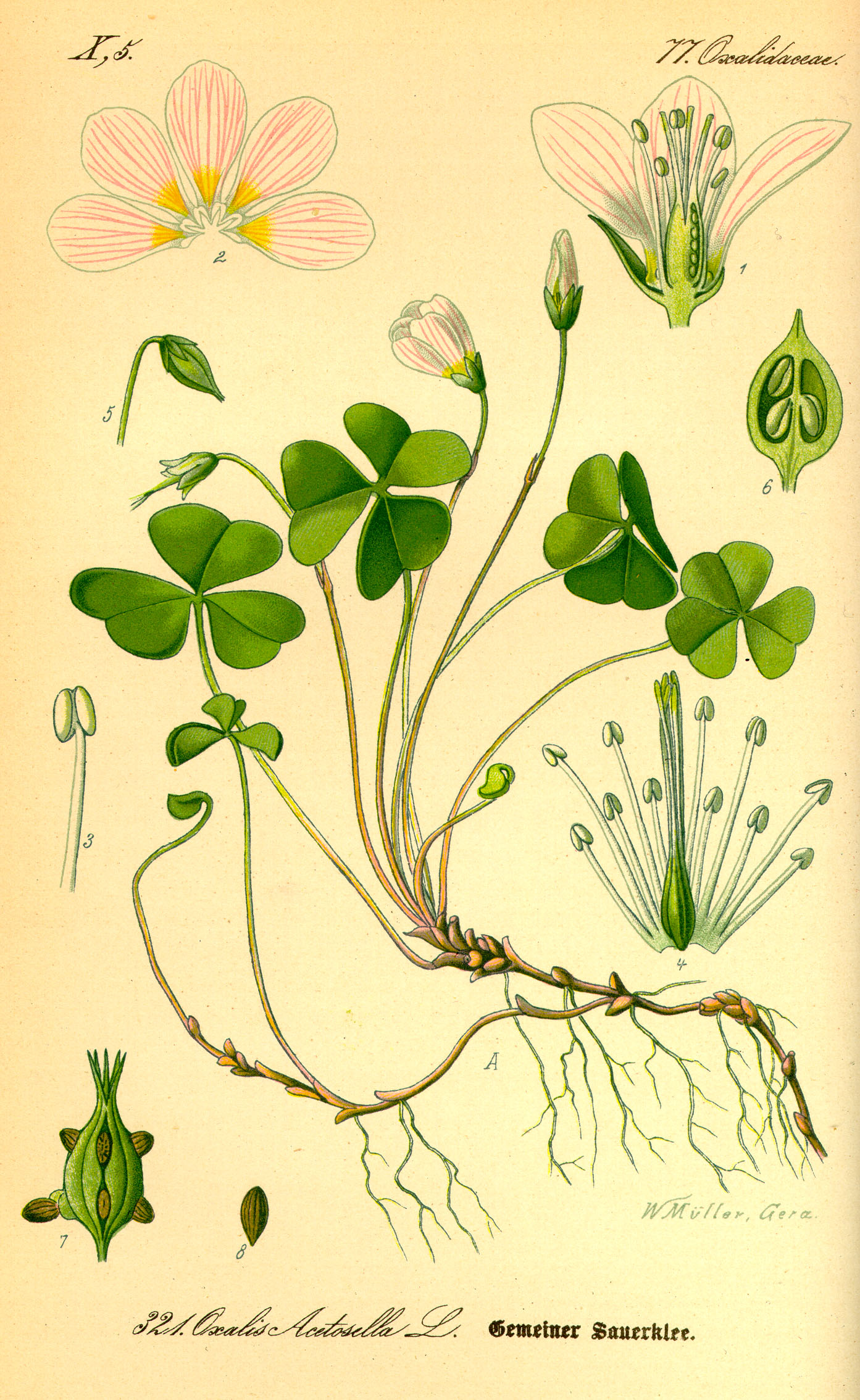 Drawings of Oxalis acetosella. Name:Oxalis acetosella - Family:Oxalidaceae